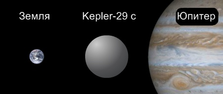 Comparative sizes of Earth, Kepler-29 c and Jupiter.